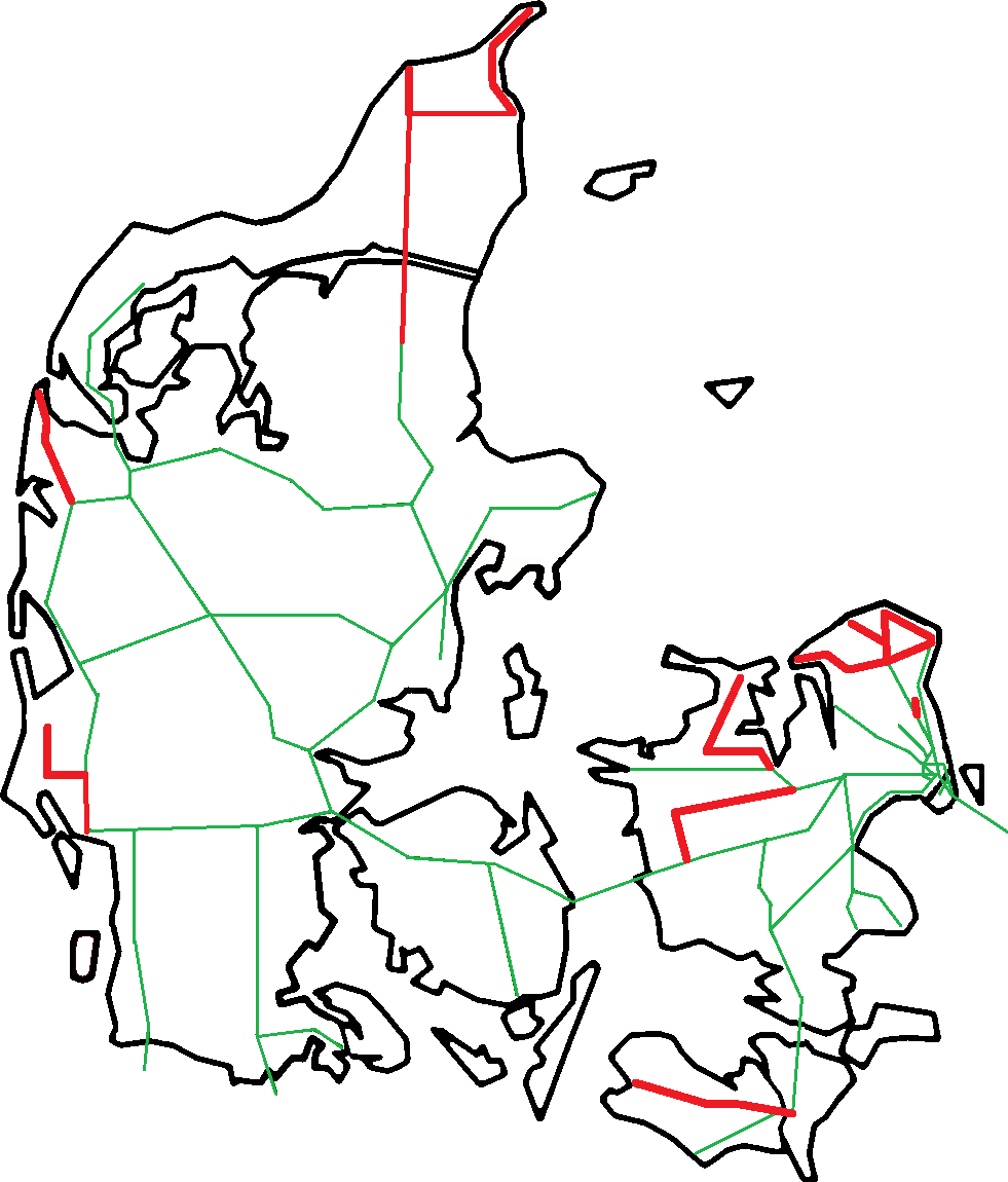 Map of railways in Denmark with lines served by private railways in red. The thick lines are also owned by the private railways. The thin line between Skørping and Frederikshavn is owned by Banedanmark but partly served by Nordjyske Jernbaner. The thin line between Esbjerg and Varde is owned by Banedanmark but served by Arriva which is also serving the private railway Vestbanen between Varde and Nørre Nebel.